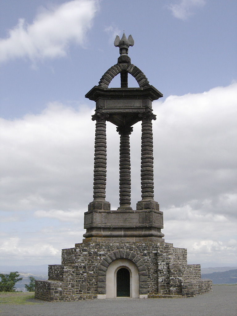 Memorial of the victory of the people of Gaul over the armies of Julius Caesar in 52 BC on top of the oppidum of Gergovie (South of Clermont-Ferrand, France). Built in the 19th century.